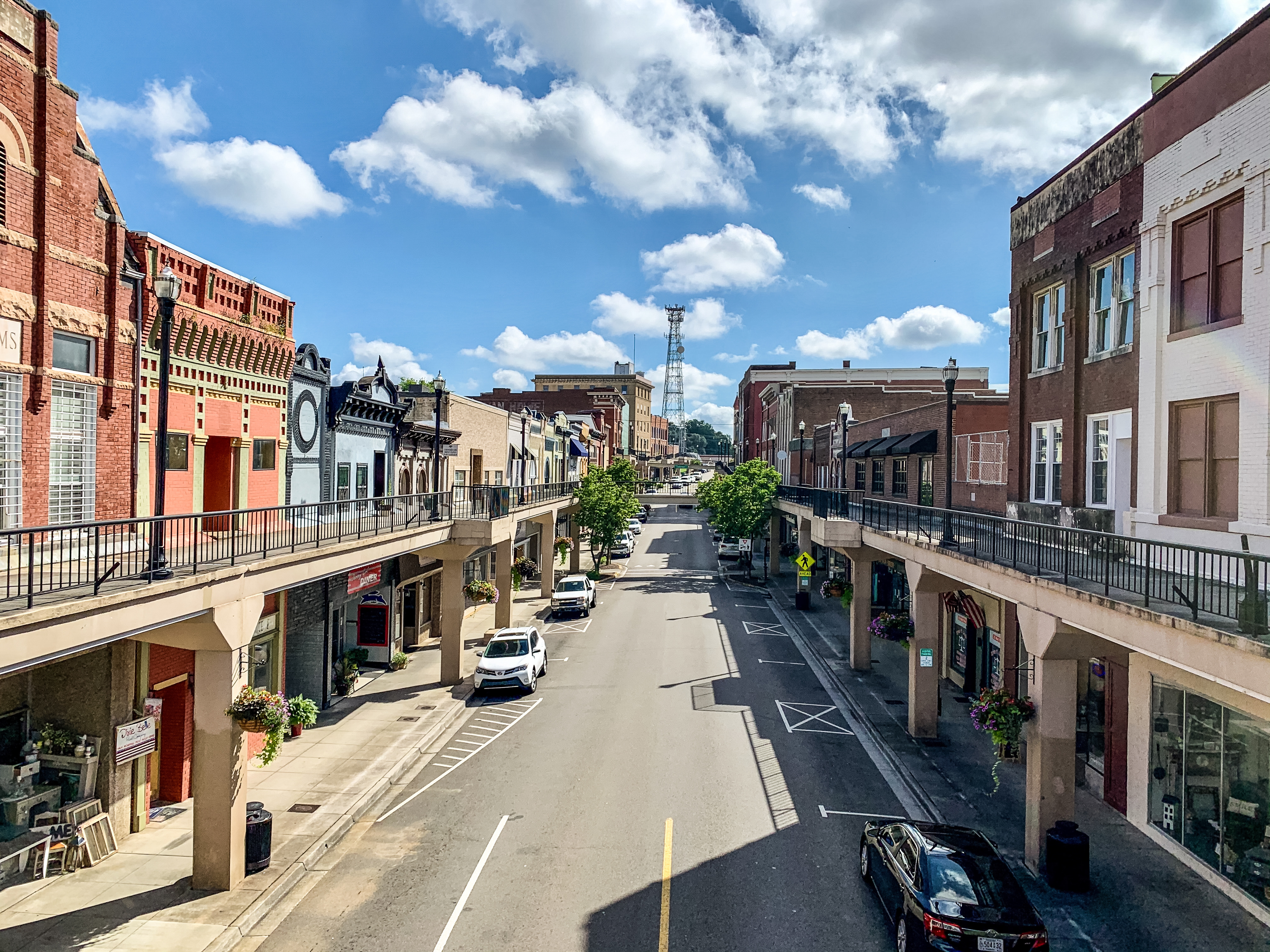 Main Street in Downtown Morristown, Tennessee, United States.